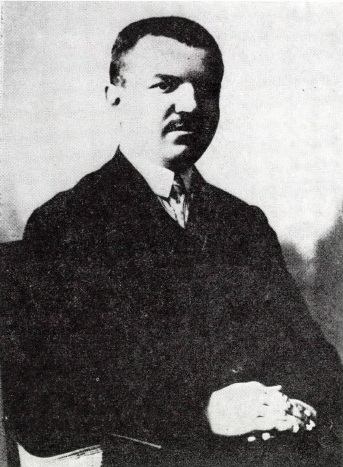 Károly Csörsz (1892-1935)